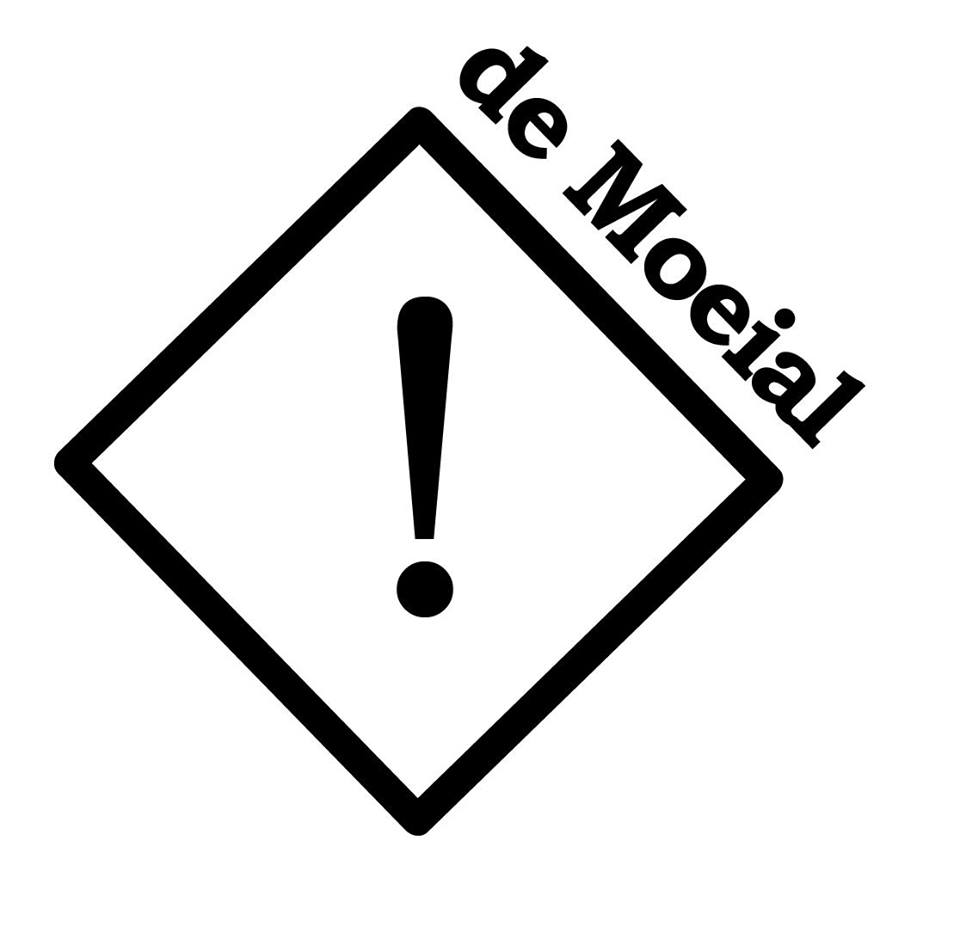 Logo of the Belgian student newspaper De Moeial